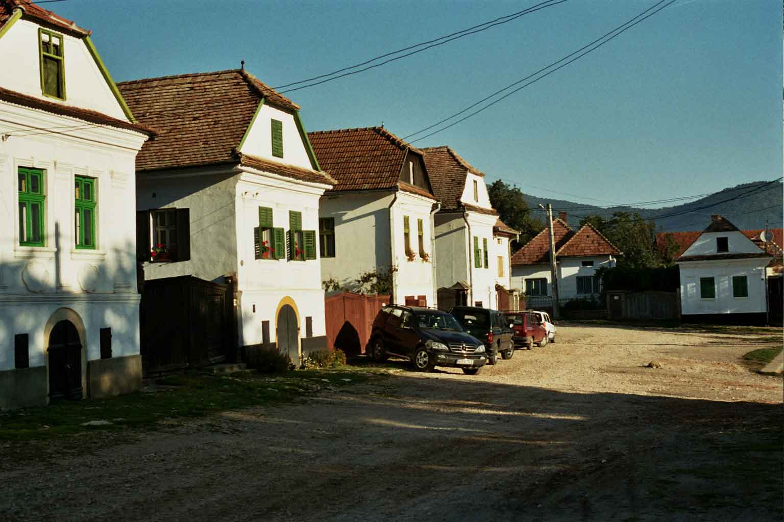 Rimetea town, Transylvania, Romania